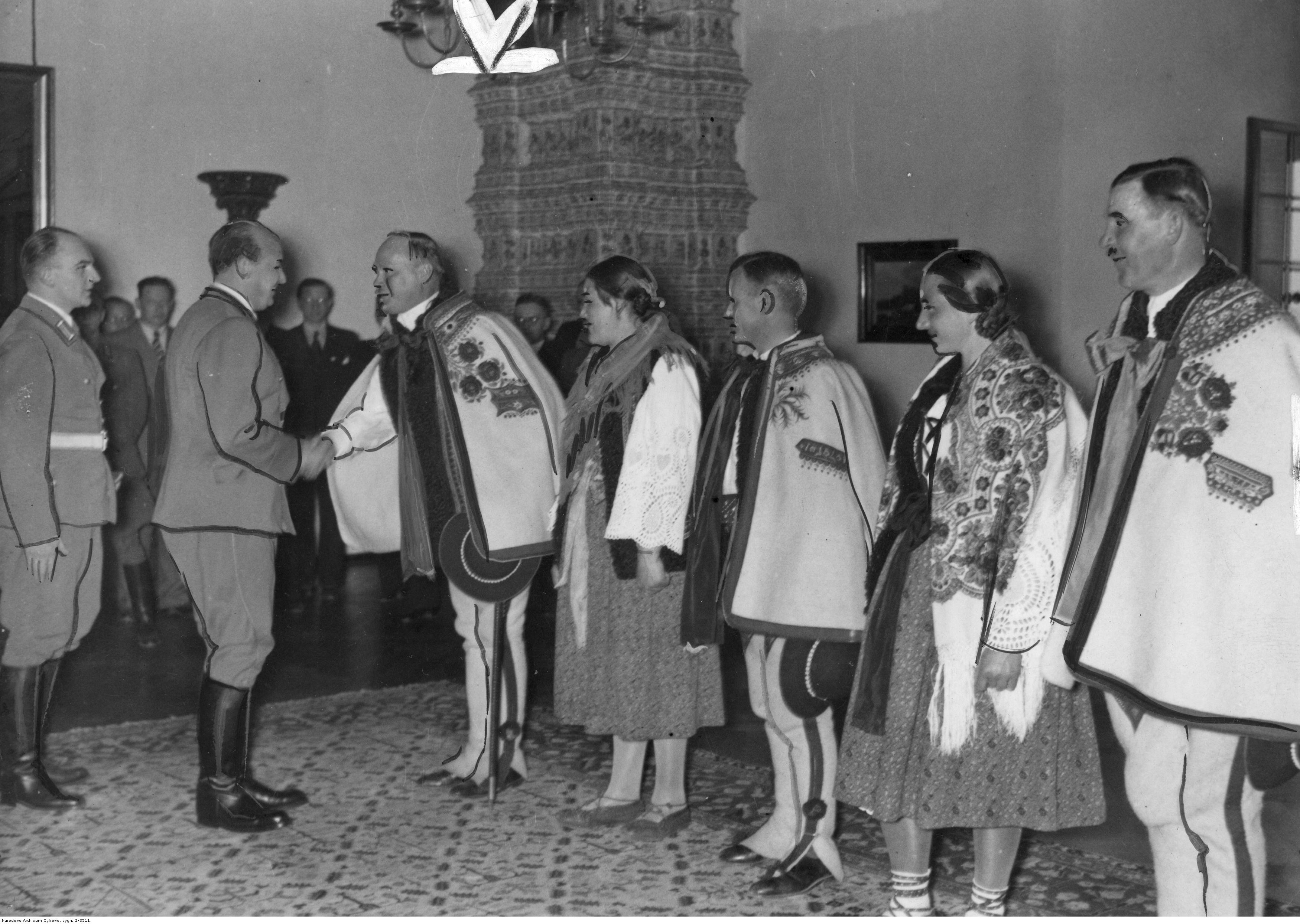 Prominent Goralenvolk activist Wacław Krzeptowski visiting governor Hans Frank during Adolf Hitler's birthday celebrations